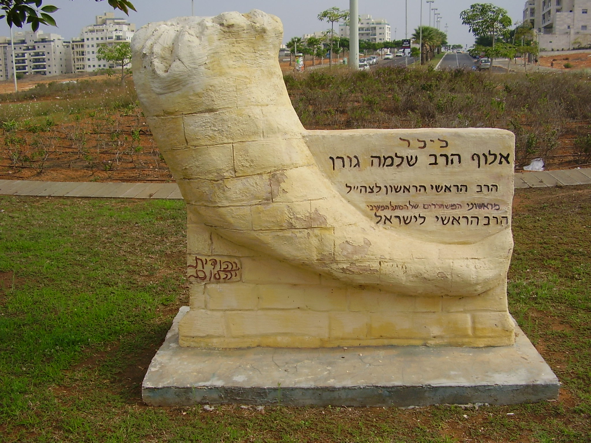 Rabbi Sholomo Goren Square in Petah Tikva